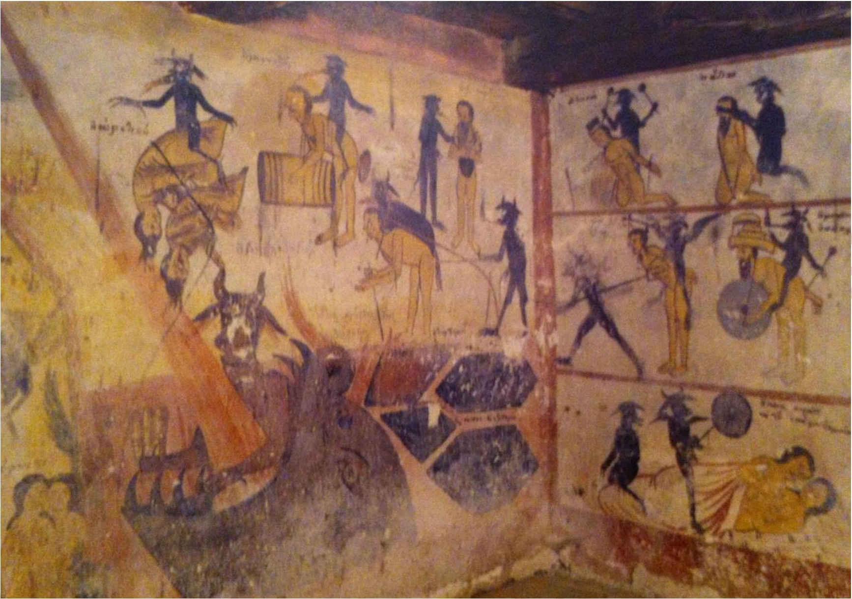 Nativity of Mary Church in Dolno Kleshtino Kato Kleines Fresco